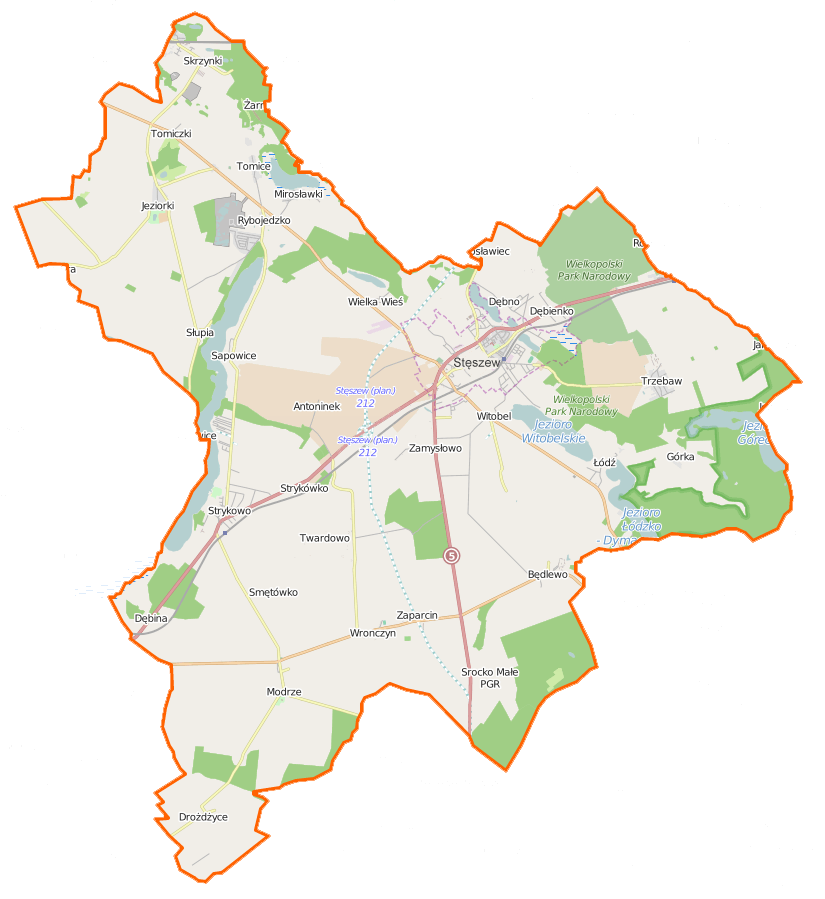 Map of Gmina Stęszew, Poland This map of Stęszew (gmina) was created from OpenStreetMap project data, collected by the community. This map may be incomplete, and may contain errors. Don't rely solely on it for navigation. Border coordinates52.355516.5368←↕→16.820052.1668